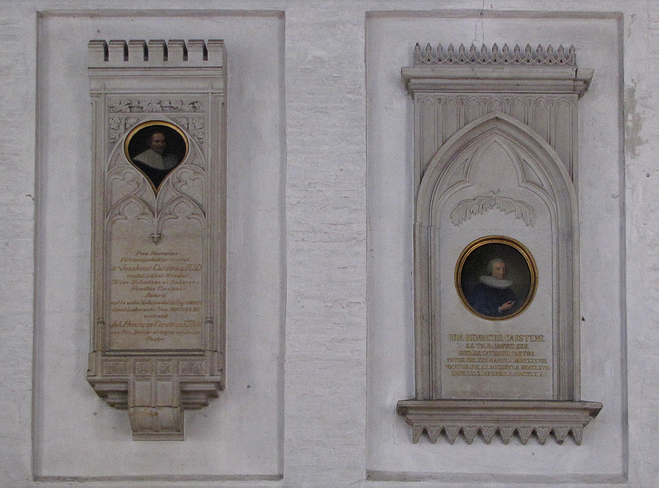 Double monument for Joachim Carstens and his descendant Johann Heinrich Carstens, c. 1850